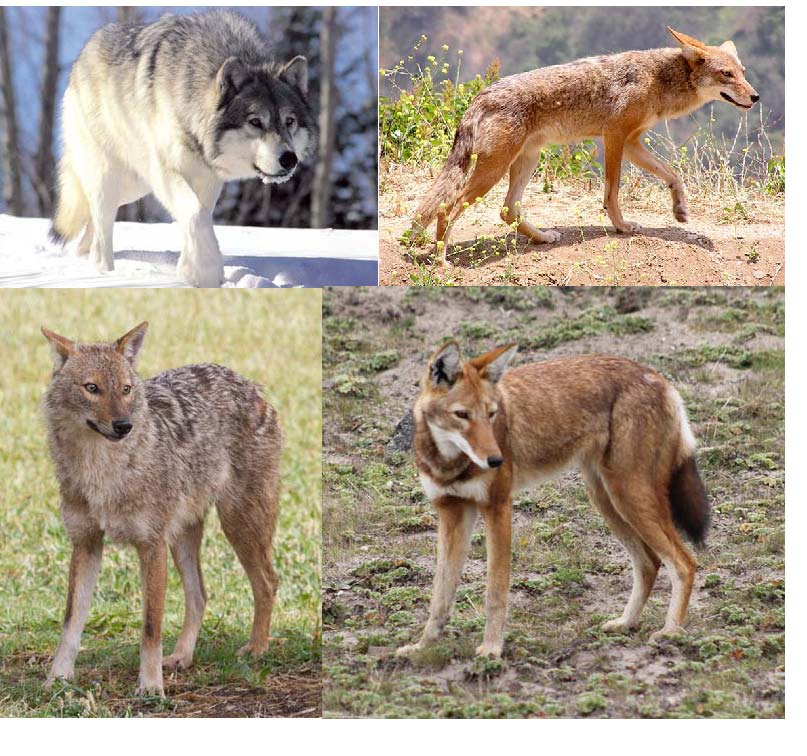 Canis